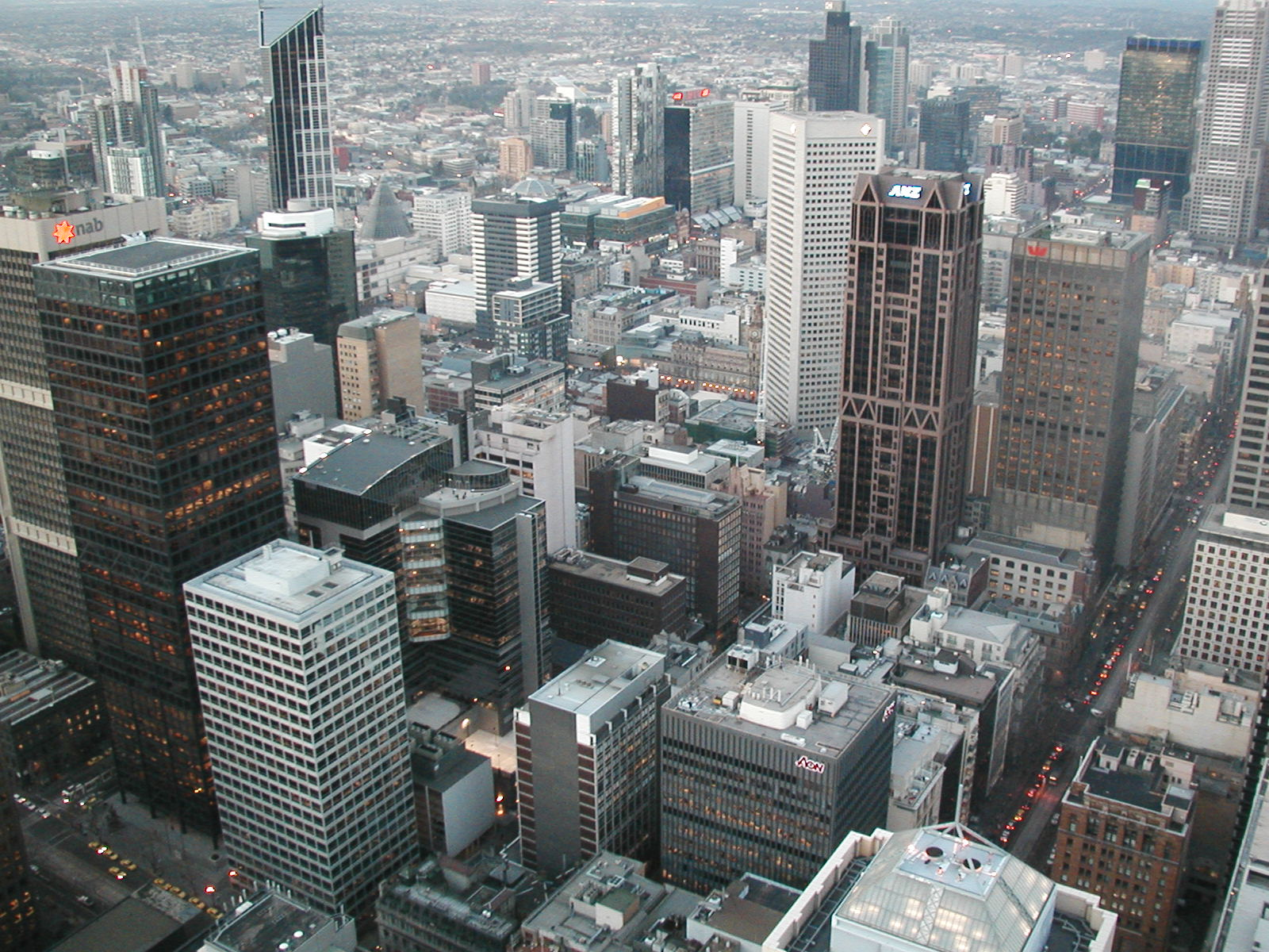 Aerial view of Melbourne's CBD. Collins Street is the street visible at extending from the bottom right of the photo.